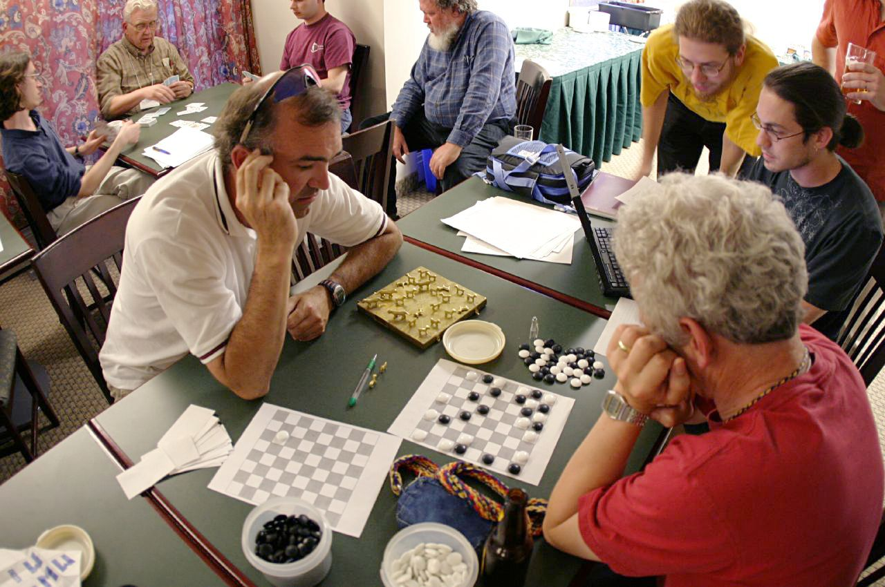 Mathematicians playing Konane at conference on Combinatorial Game Theory at Banff International Research Station